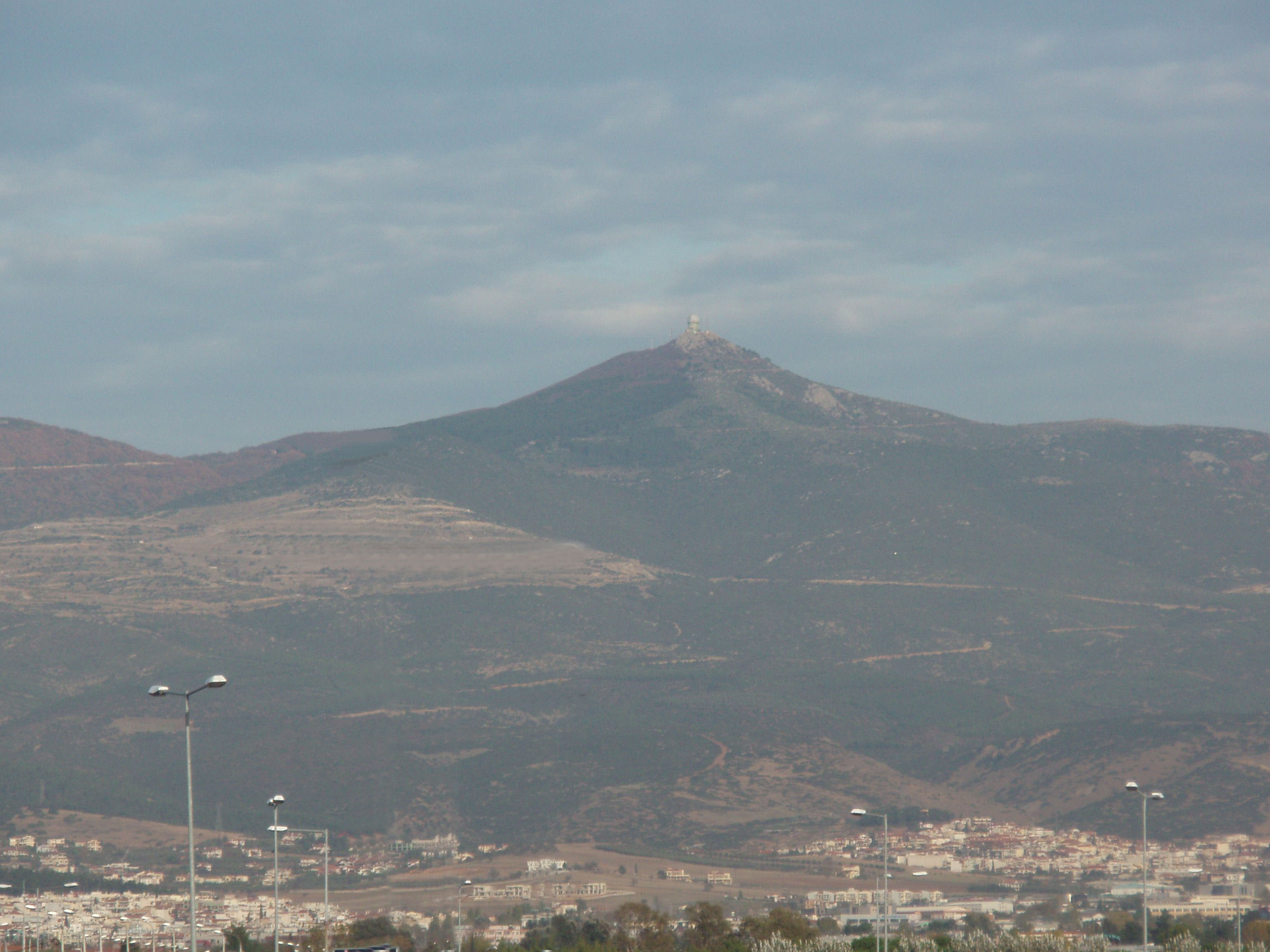 Mount Chortiatis in Thessaloniki prefecture, Greece. As seen from Thessaloniki Makedonia Airport Passenger Terminal (southwestern aspect).